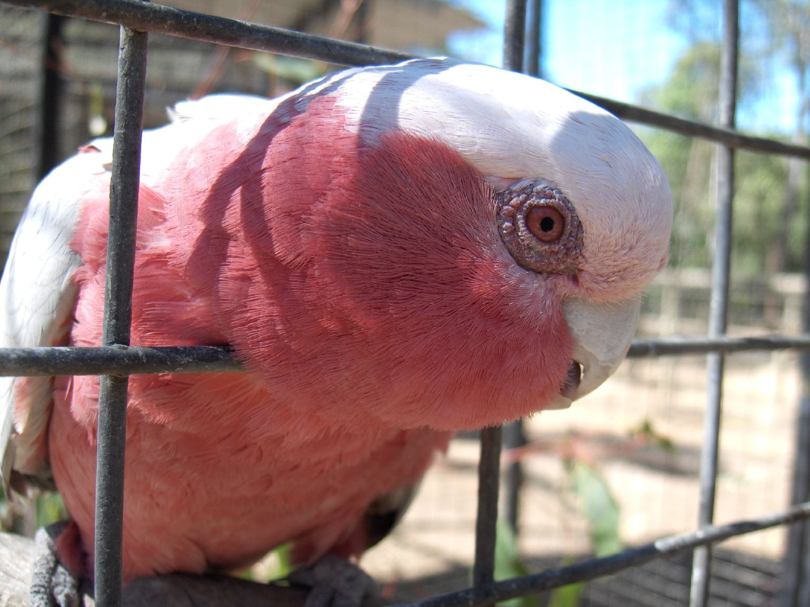 Galah, also known as the Rose-breasted Cockatoo, at Billabong Sanctuary, Townsville, Queensland, Australia.